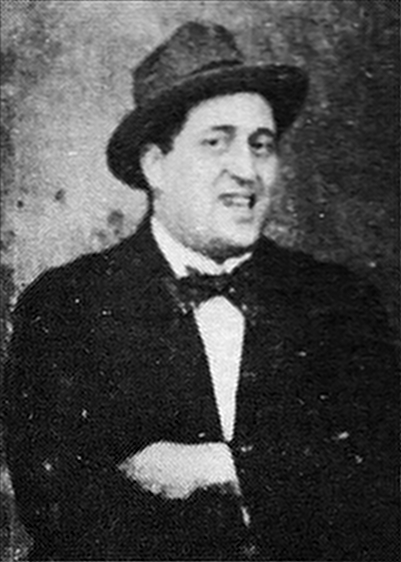 Guillaume Apollinaire (1880-1918) in 1914. Cropped image showing the left half of one photo in a series of 49 photos picturing Guillaume Apollinaire and André Rouveyre, taken in quick succession with a photo machine of the studio Biofix in Paris on August 1, 1914.On their way to the office of the newspaper Comoedia, Apollinaire and Rouveyre had the pictures taken in the studio of Biofix, located nearby on the same street, at 23 boulevard Poissonnière, Paris. Biofix produced the photographic prints, bound with a metal base to form a flip book. The original prints bound in the metal base were rediscovered by Apollinaire's widow, Jacqueline, in 1938. The 49 photos were first reproduced in the book Apollinaire filmé en 1914 Reproduction des 50 images en reconstitution de la petite machine animée, Le point, Lanzac par Souillac, published in 1944, with an introduction by Rouveyre telling the circumstances. Ref.: [1] [2]. 32 of the photographs were also reproduced later in André Rouveyre, Amour et poésie d'Apollinaire, Éditions du Seuil, Paris, 1955.